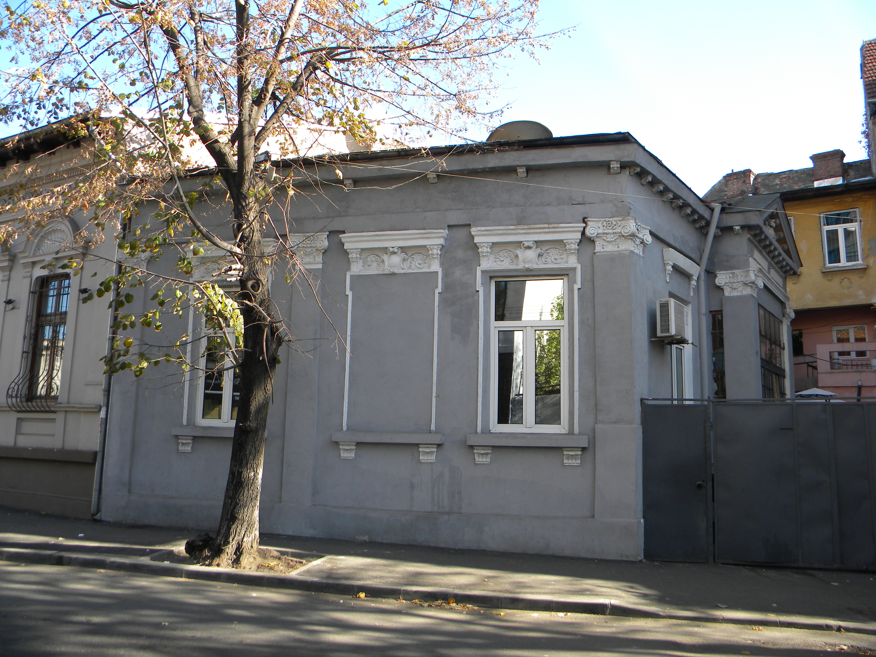 Bucuresti, Romania, Str. Mantuleasa nr. 34, sect. 2, (B-II-m-B-19183)